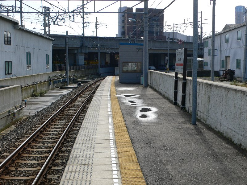 Nanatsuya St., Hokuriku Railroad, Ishikawa, Japan.